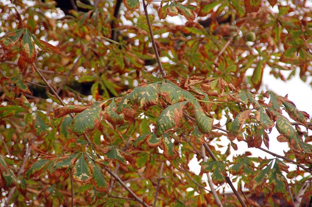 Cameraria ohridella, Saint-Gervais-les-Bains, Haute-Savoie, France